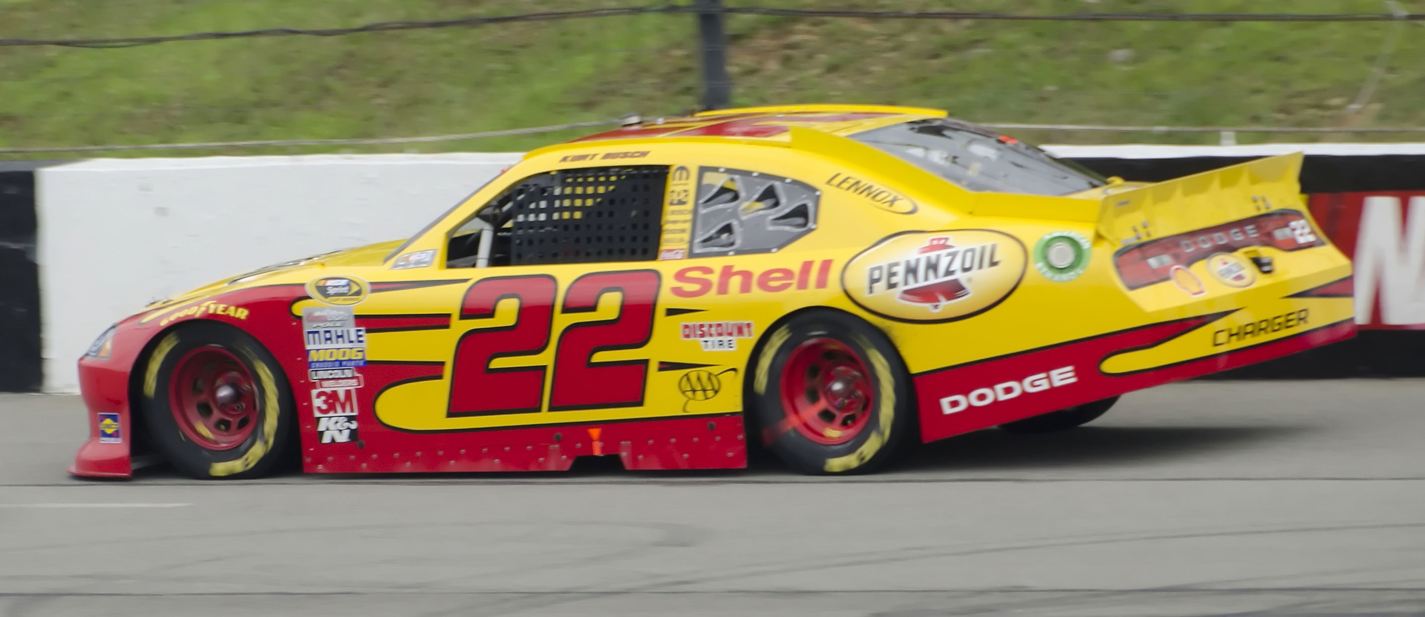 Kurt Busch's No. 22 Shell/Pennzoil Dodge at Pocono Raceway in 2011